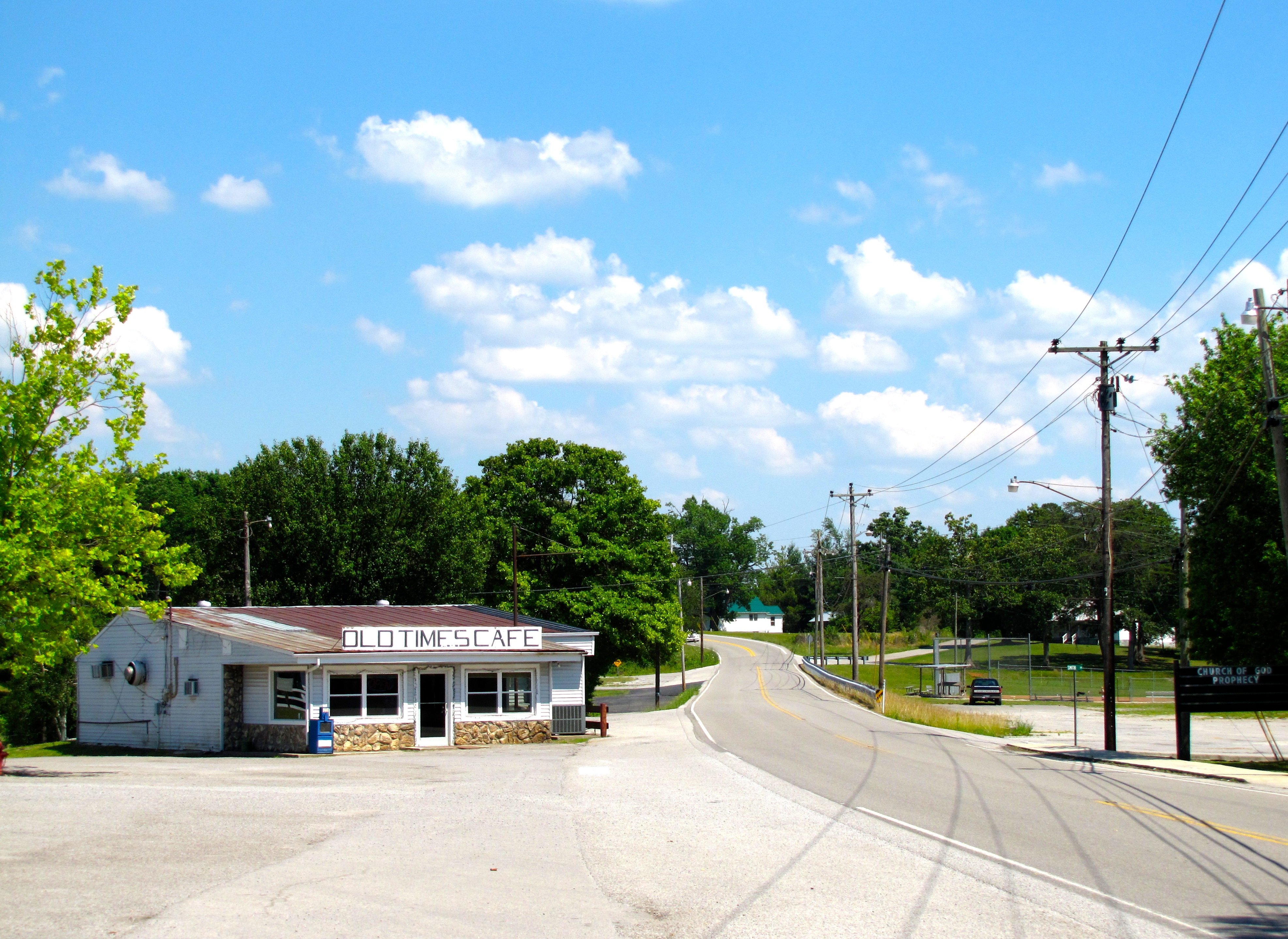 The Old Times Cafe along College Street (Tennessee State Route 30) in Spencer, Tennessee, United States.